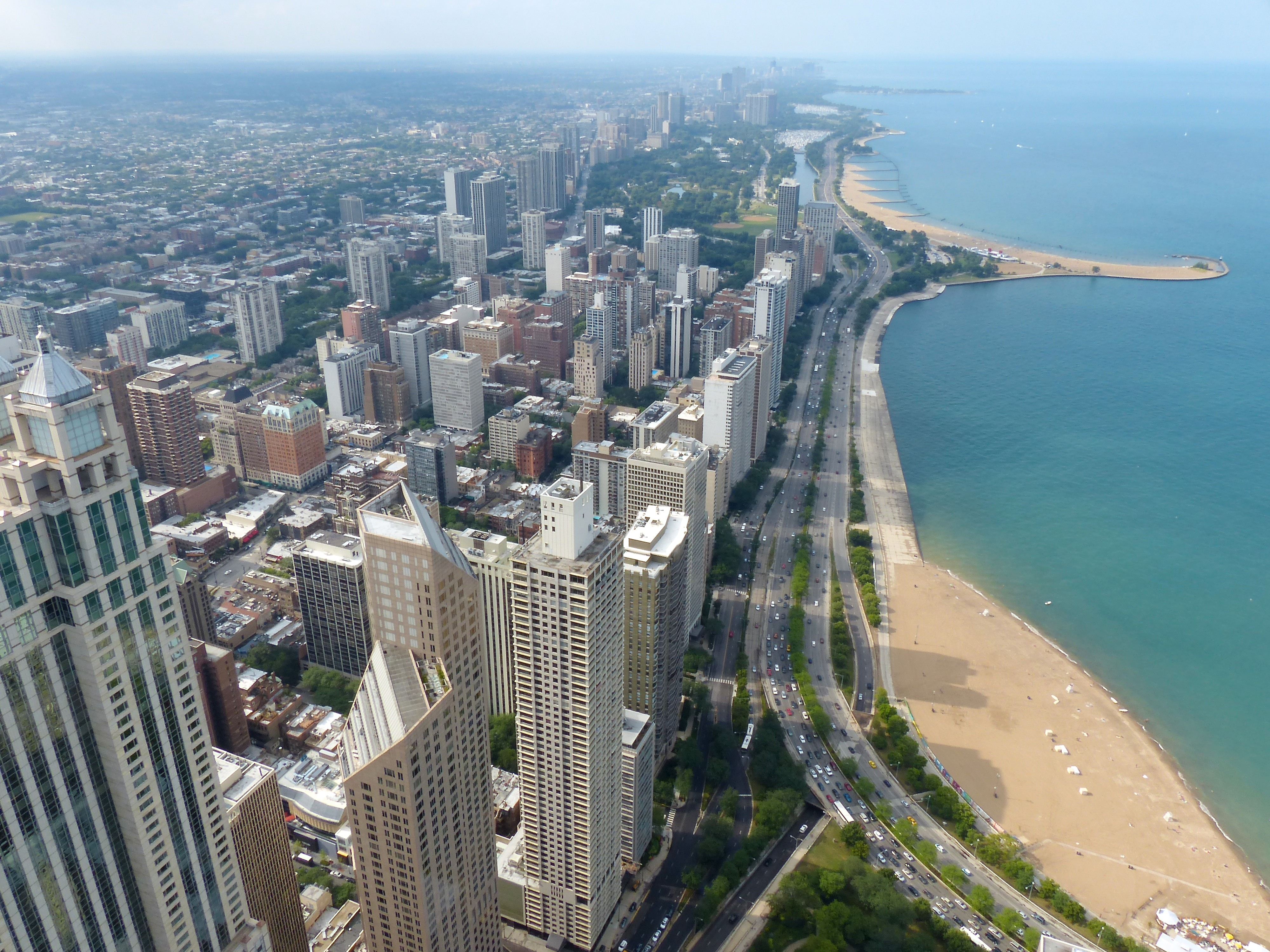 Chicago: Gold Coast